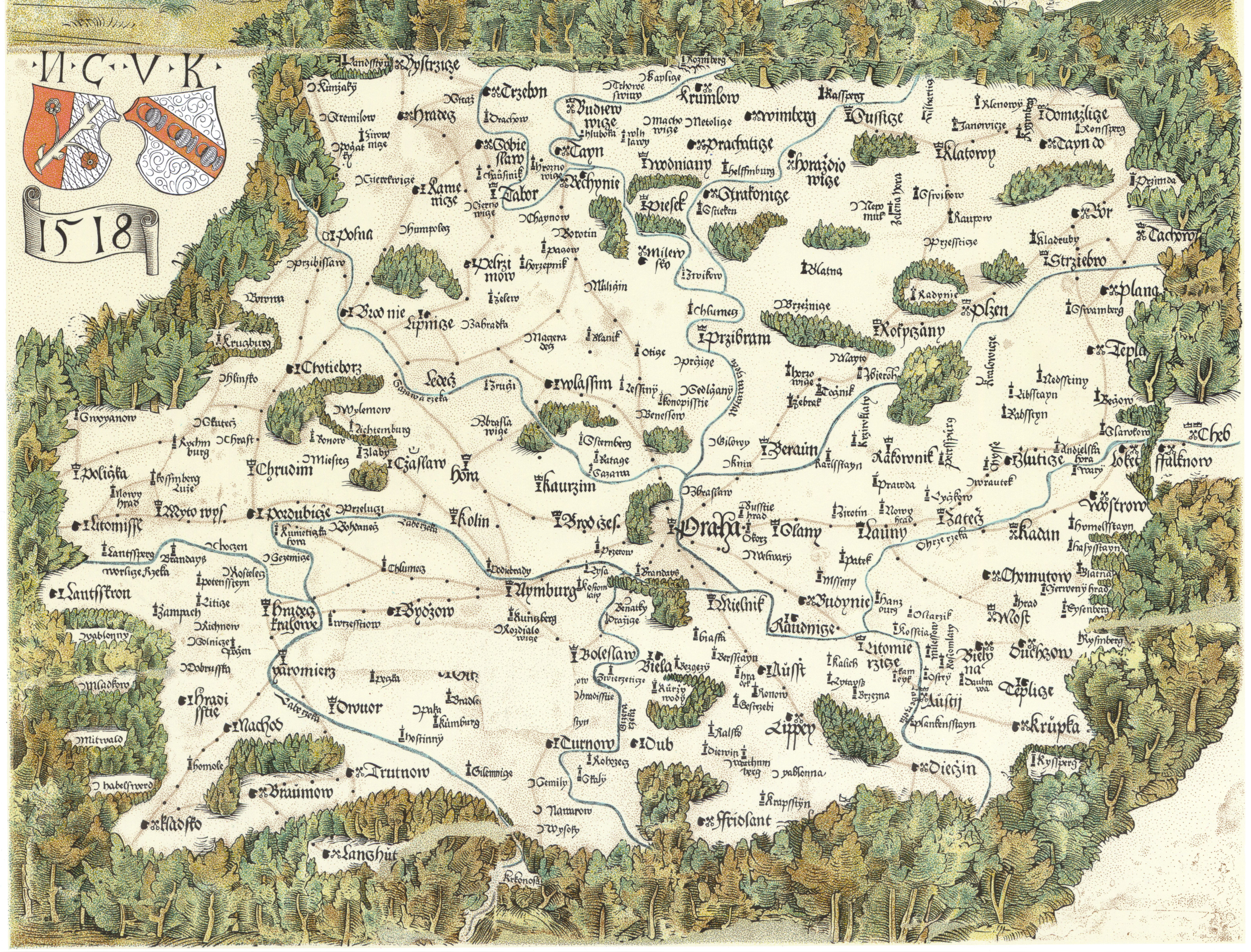 Map of Bohemia made by Mikulas Claudian in 1518, all other illustrations cut